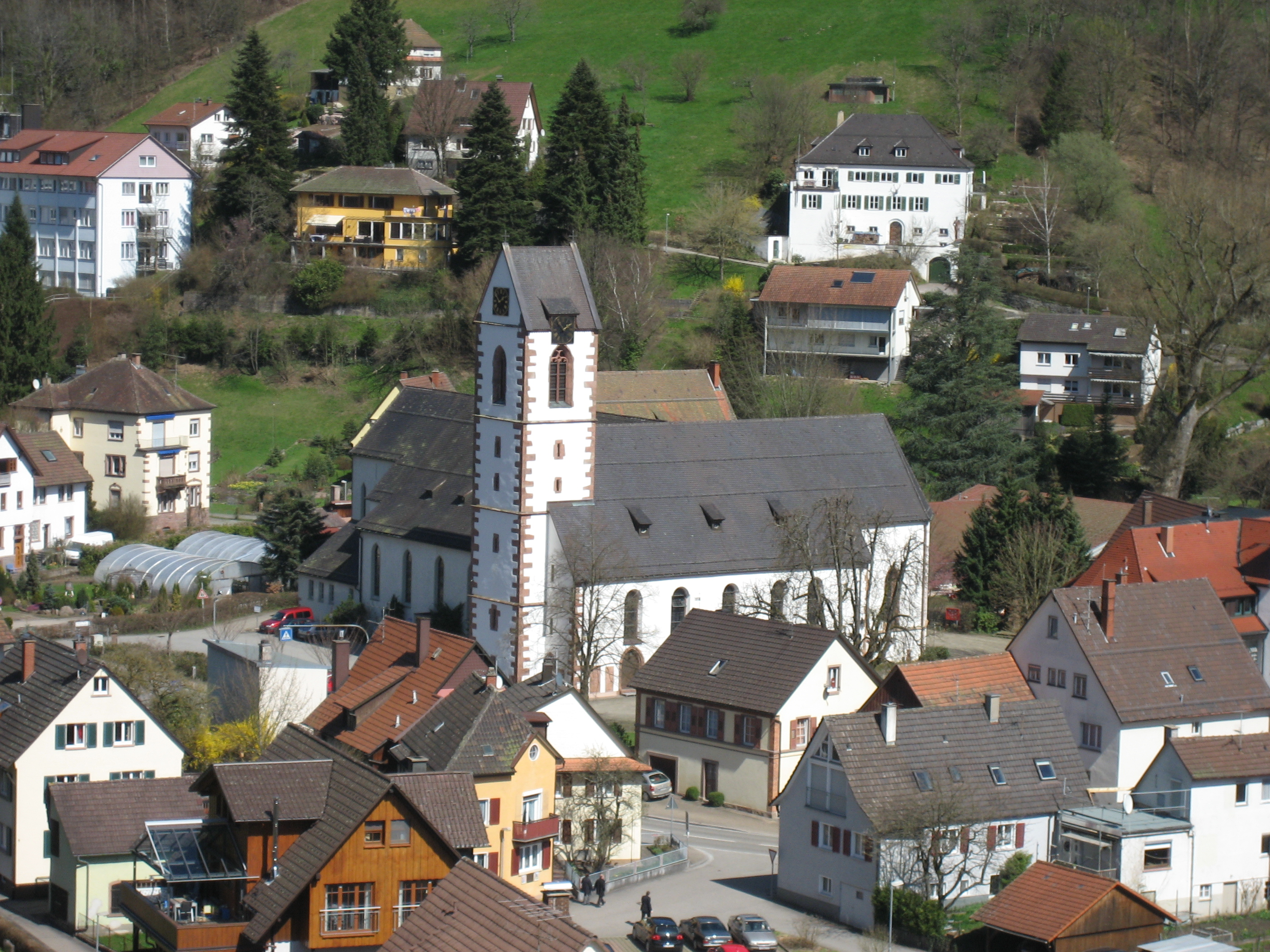 Church in Wolfach in the Schwarzwald region, Germany, Europe